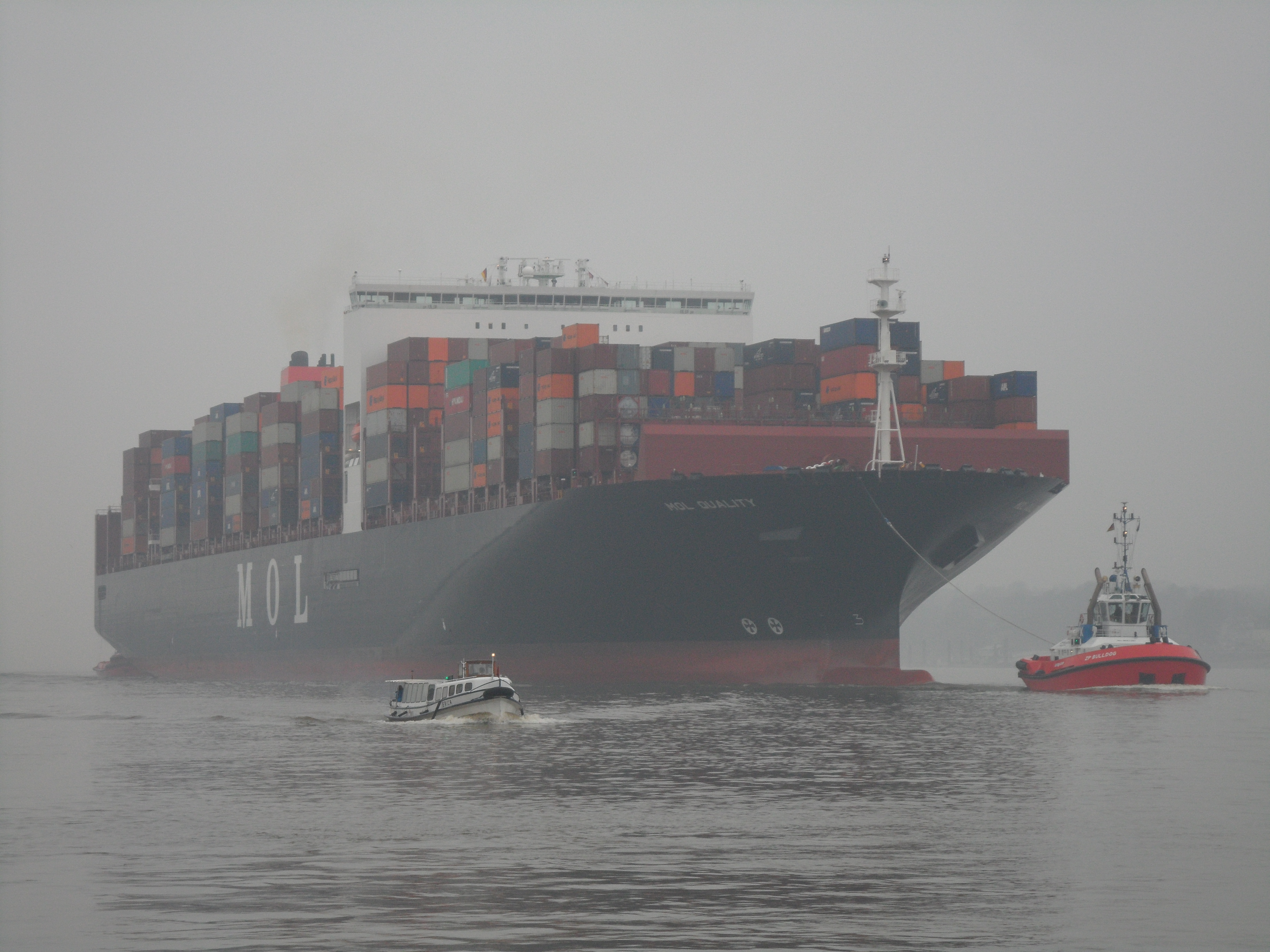 Container ship MOL Quality in the mist on the river Elbe with Destination Hamburg